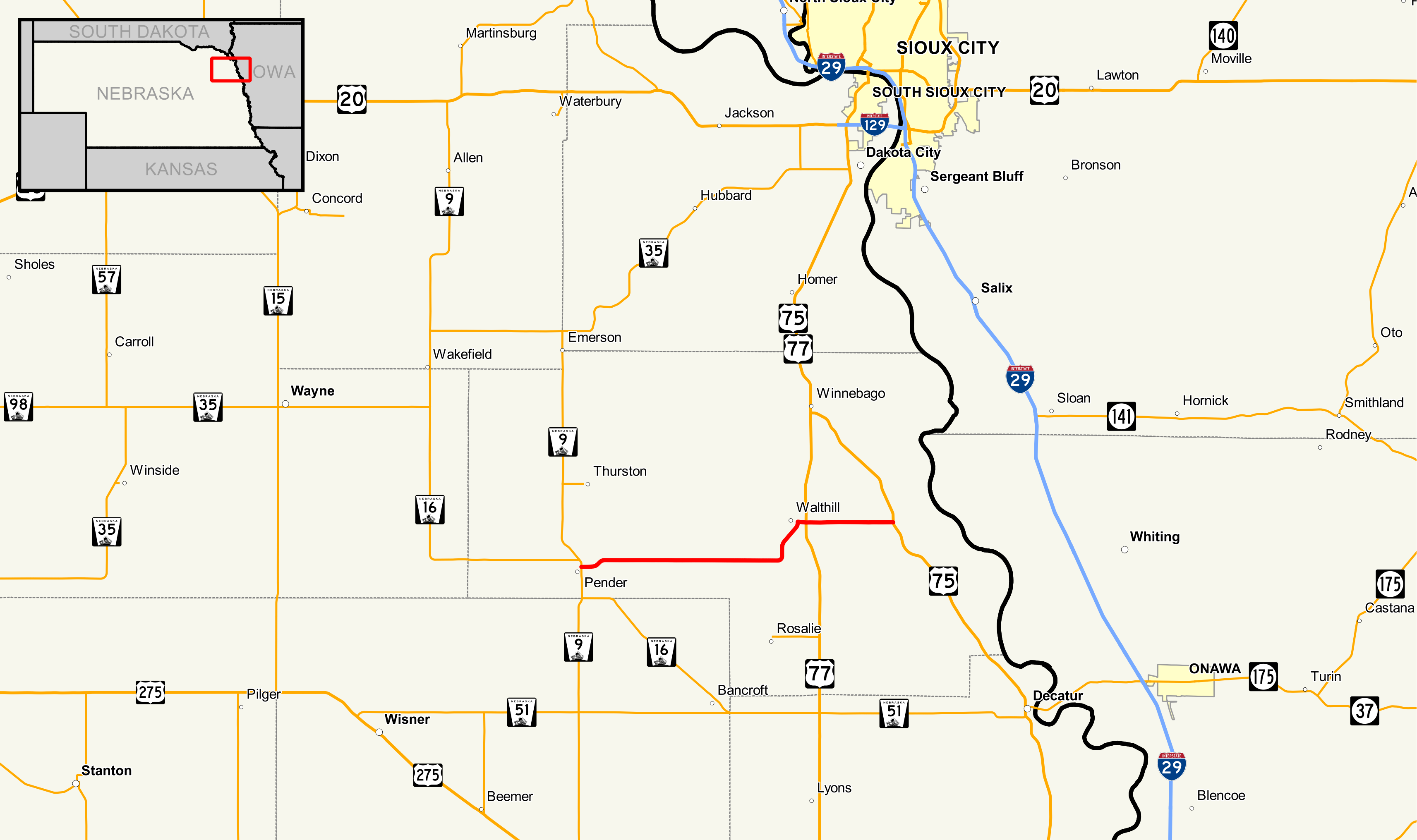 Map of Nebraska Highway 94 Data Sources: Nebraska Highways - - Dec 2016 Nebraska County Boundaries - - Dec 2016 Nebraska City Boundaries - - Dec 2016 This PNG graphic was created with QGIS